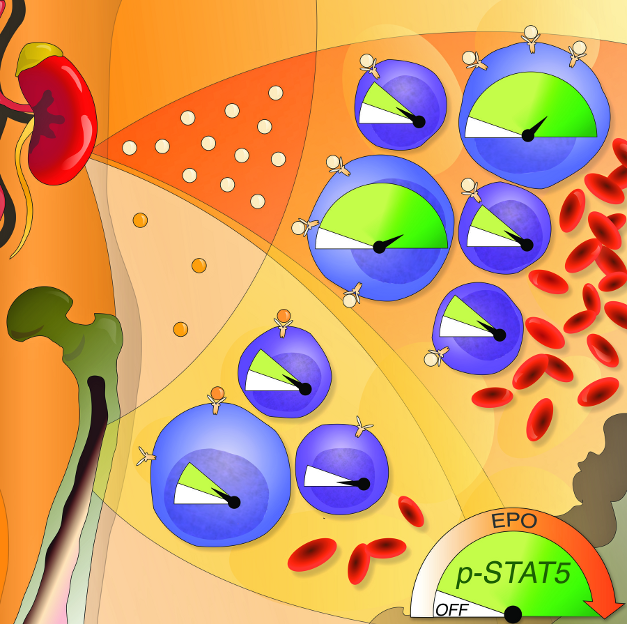 The hormone erythropoietin (Epo) stimulates differentiation of bone-marrow erythroblasts into red cells by activating a binary intracellular Stat5 signal. In hypoxic stress, higher Epo increases red cell production by generating a graded Stat5 signal that reaches high intensities in early (large) erythroblasts.